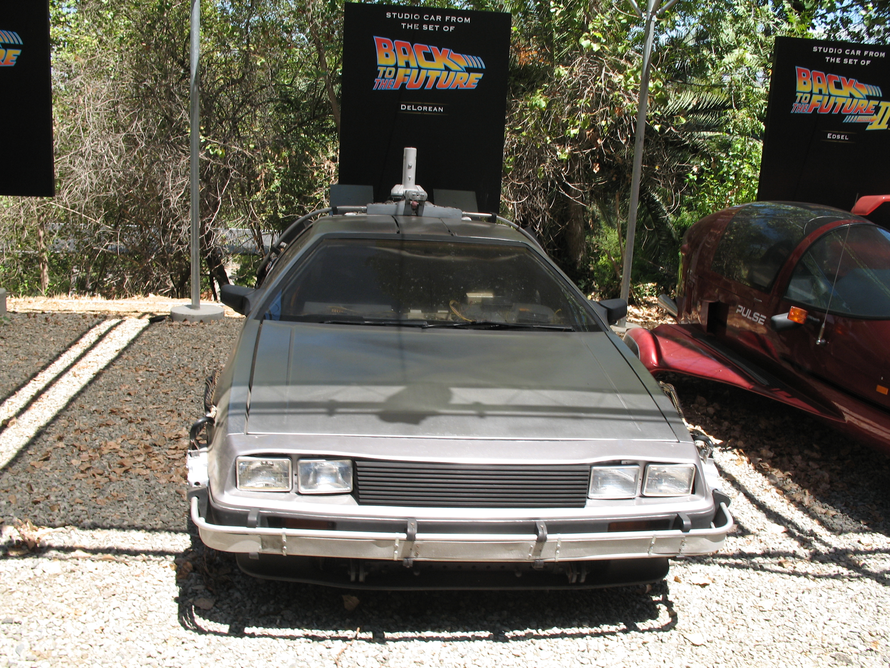 Photo of the Back to the Future studio car. This was taken at Universal Studios in California. santo domingo 22 de marzon 1994